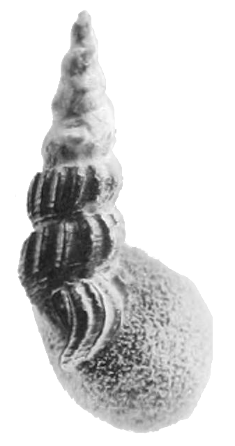 Black and white photo of a lateral view of a shell of Tylomelania centaurus partly covered by a sponge Pachydictyum globosum Weltner. This shell is a holotype, NMB 1339a (Naturhistorisches Museum, Basel).[1] ↑ von Rintelen T. & Glaubrecht M. (2005). "Anatomy of an adaptive radiation: a unique reproductive strategy in the endemic freshwater gastropod Tylomelania (Cerithioidea: Pachychilidae) on Sulawesi, Indonesia and its biogeographical implications." Biological Journal of the Linnean Society 85: 513–542.